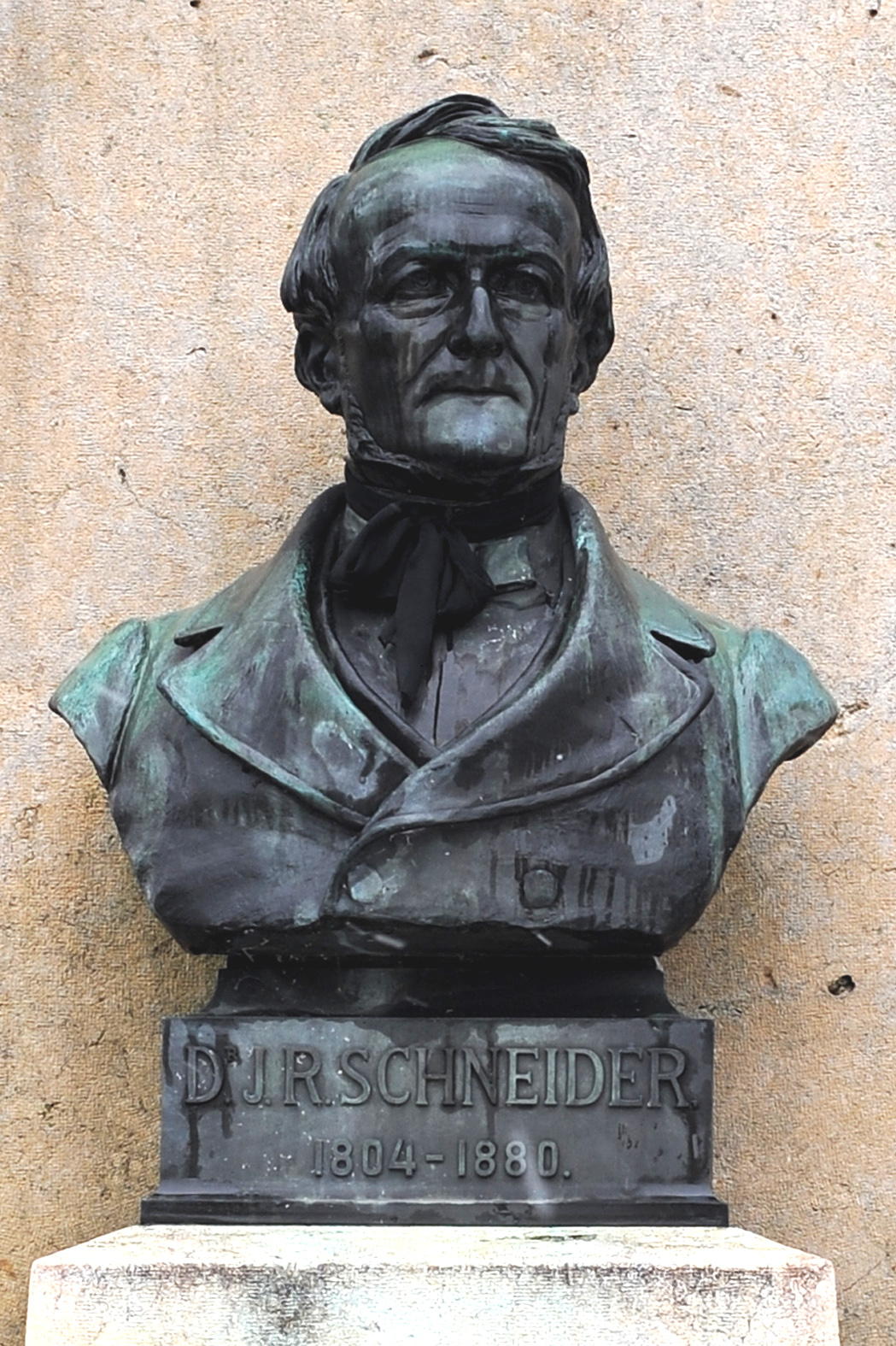 Jura water correction, memorial, Johann Rudolf Schneider; Nidau, Berne, Switzerland.